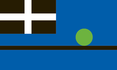 A flag of Smith Island, Maryland. A black line 1/3 of up from bottom denotes the Maryland-Virginia state line and a green circle above the line represents Smith Island itself.